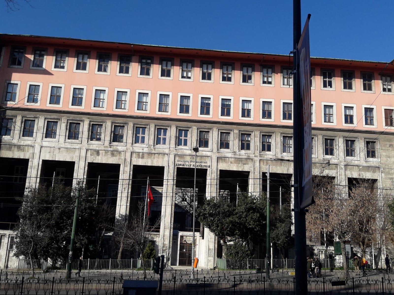 Istanbul University Faculty of Letters building